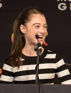 Raffey Cassidy on the Tomorrowland panel at MCM London Comic Con